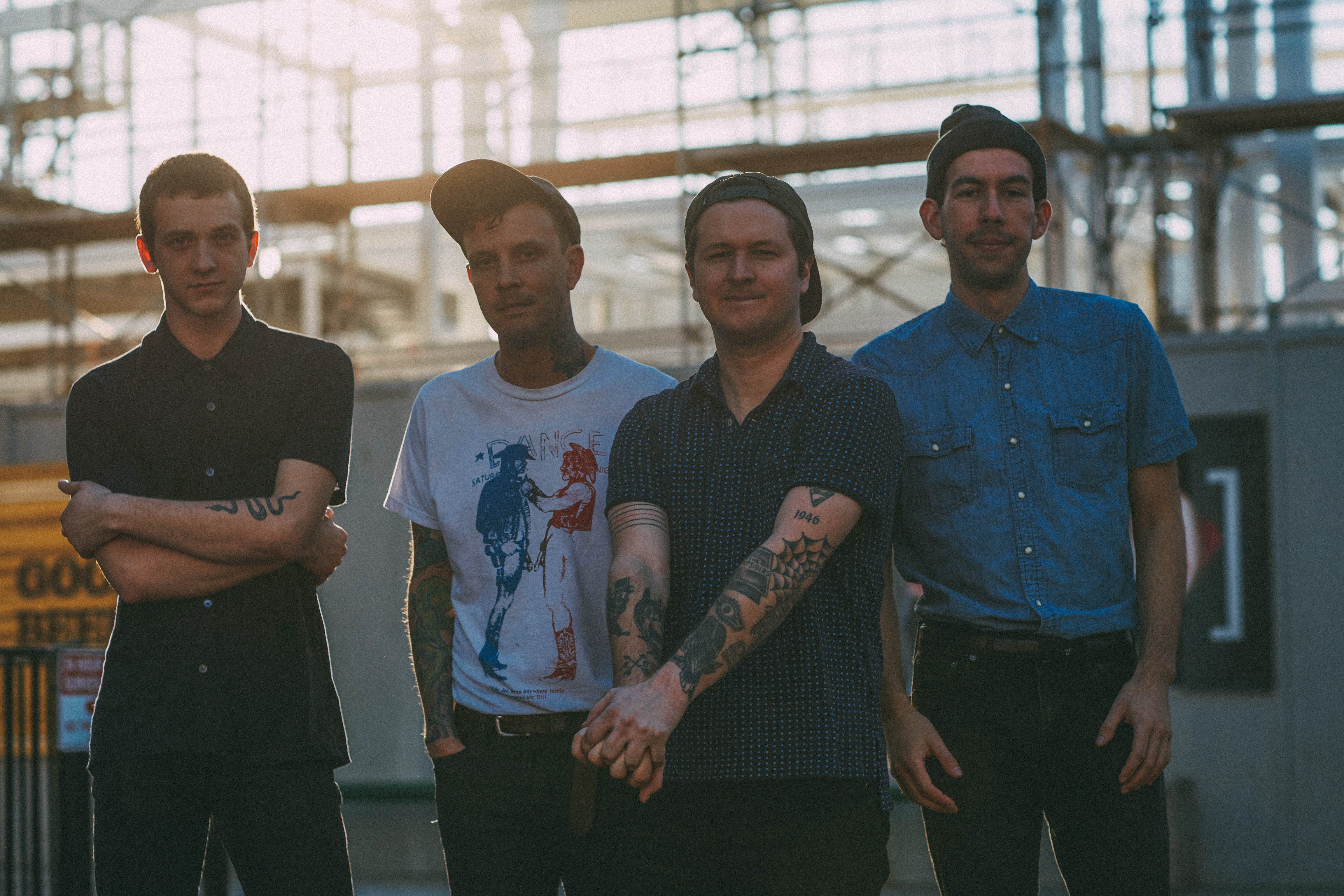 The Frights Promo Photo